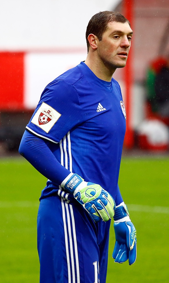 Dmitri Khomich with FC Amkar Perm in a game against FC Lokomotiv Moscow.